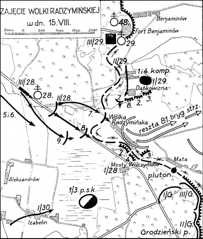 Battle for the Warsaw bridgehead. Capture of Wólka Radzymińska on August 15, 1920. Sketch No 60.